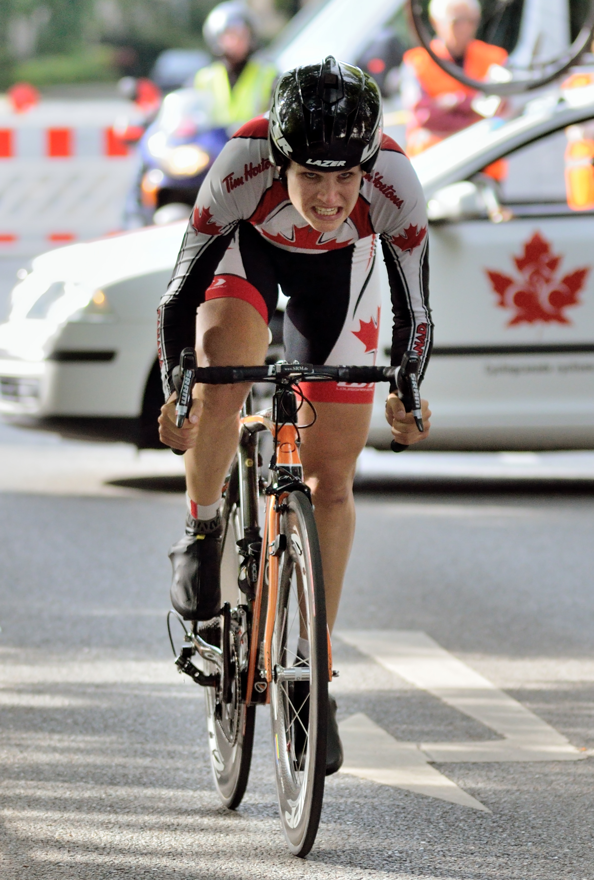 Joelle Numainville from the National Team Canada during the Women's Tour of Thuringia 2012 in Zwickau, Germany.